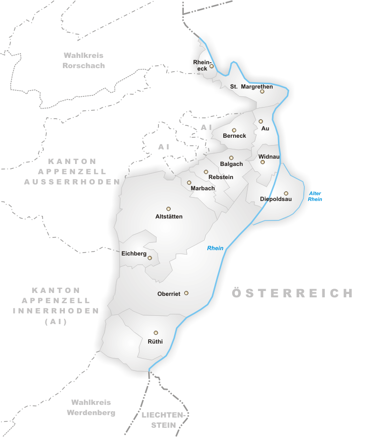 Municipalities of District Rheintal